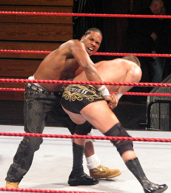 JTG wrestling Ted Dibiase at a WWE house show in Bristol, TN. Taken on February 21, 2009 with a Canon Powershot S2 IS at Viking Hall.